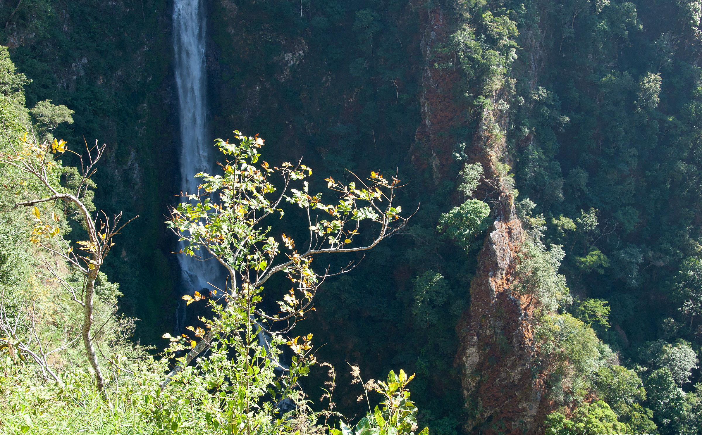 Namtok Mae Surin Waterfalls